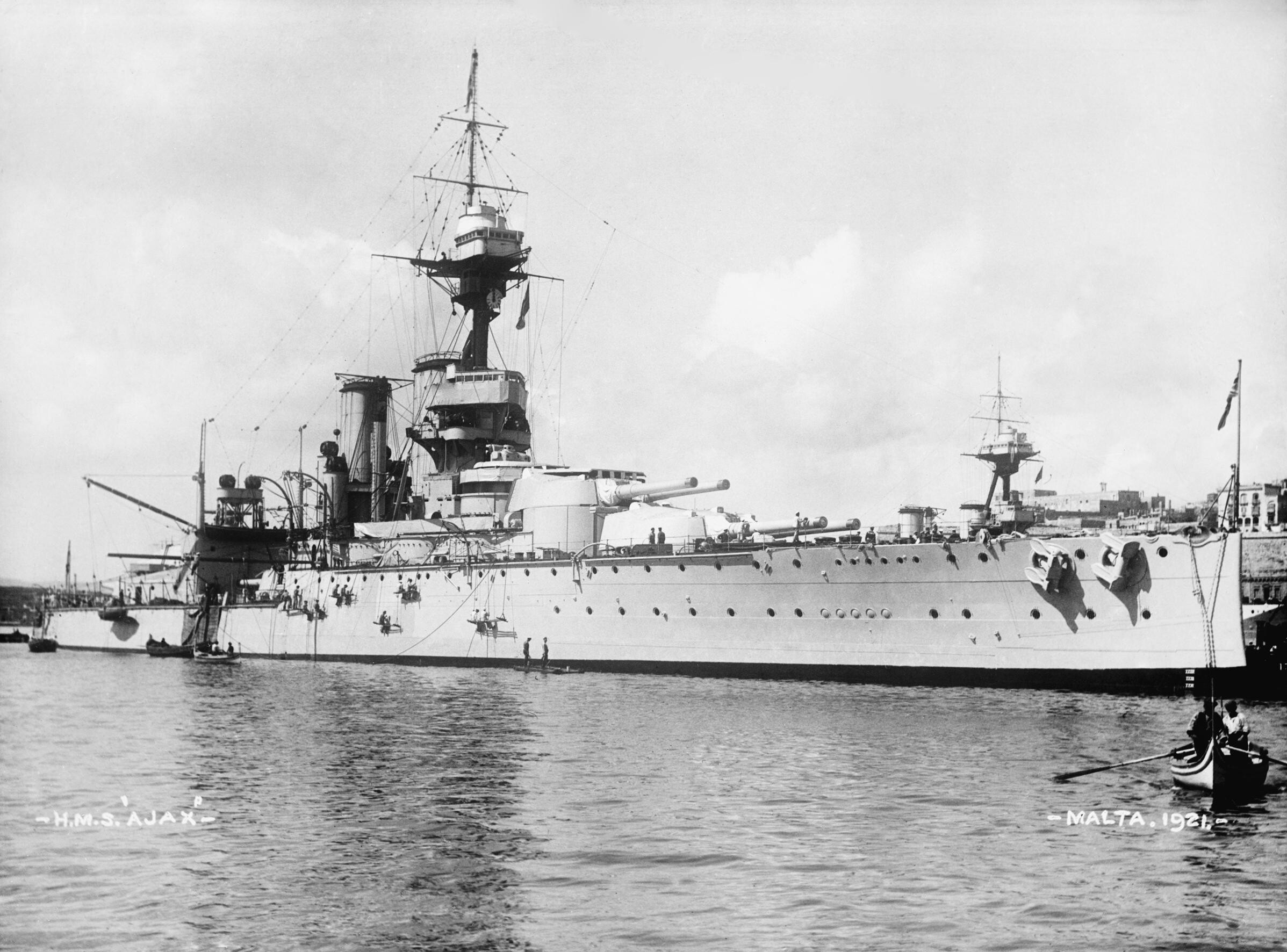 British battleship HMS AJAX at anchor in Grand Harbour, Valletta, Malta, 1921